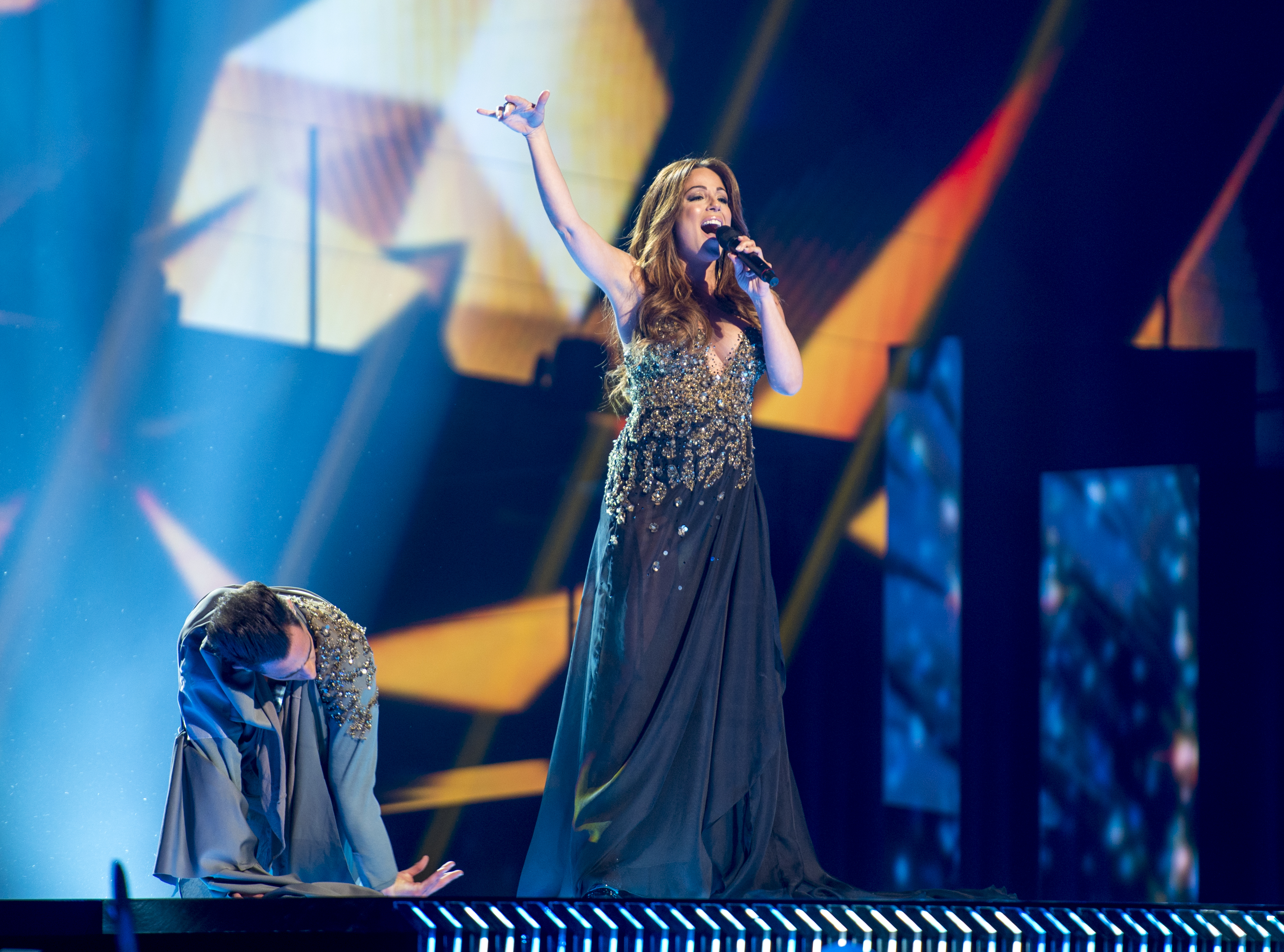 Ira Losco representing Malta with the song "Walk on Water" during a rehearsal before the first semi final of the Eurovision Song Contest 2016 in Stockholm. (Help translate this text)